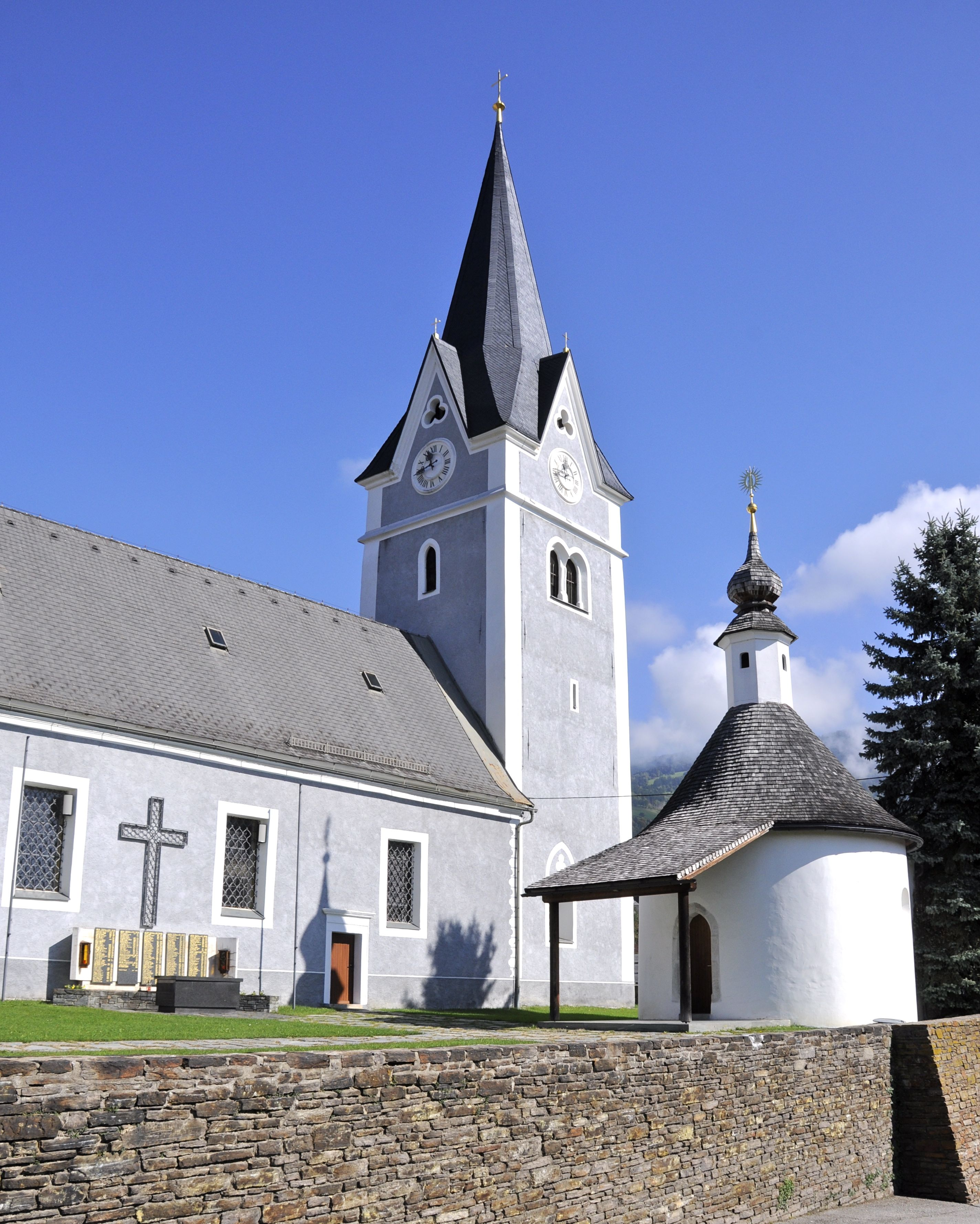 Parish church Saint George with ossuary on the Schulstrasse #2, municipality Sankt Georgen im Lavanttal, district Wolfsberg, Carinthia / Austria / EU